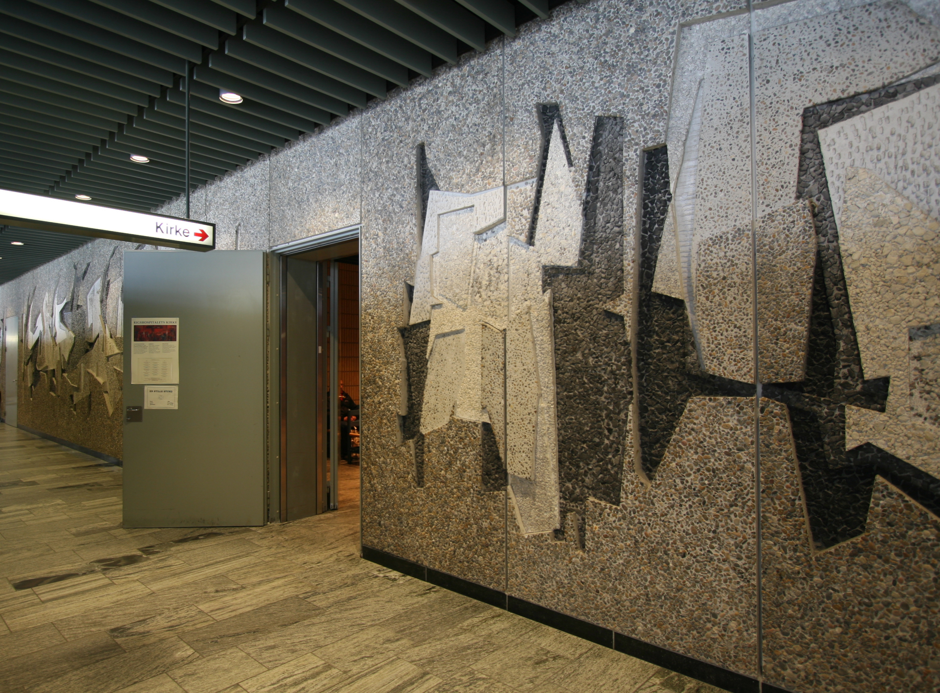 Rigshospitalets Kirke, Copenhagen, Denmark. Church of the Danish National Hospital. Entrance.